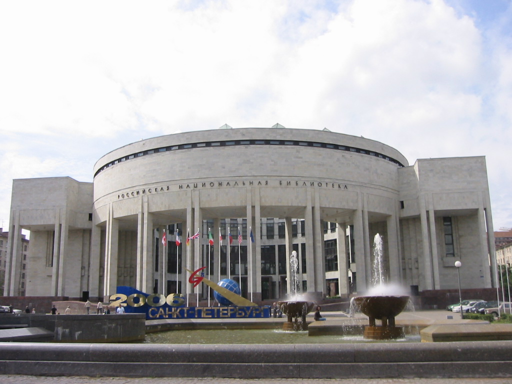 The New building of the National Library of Russia